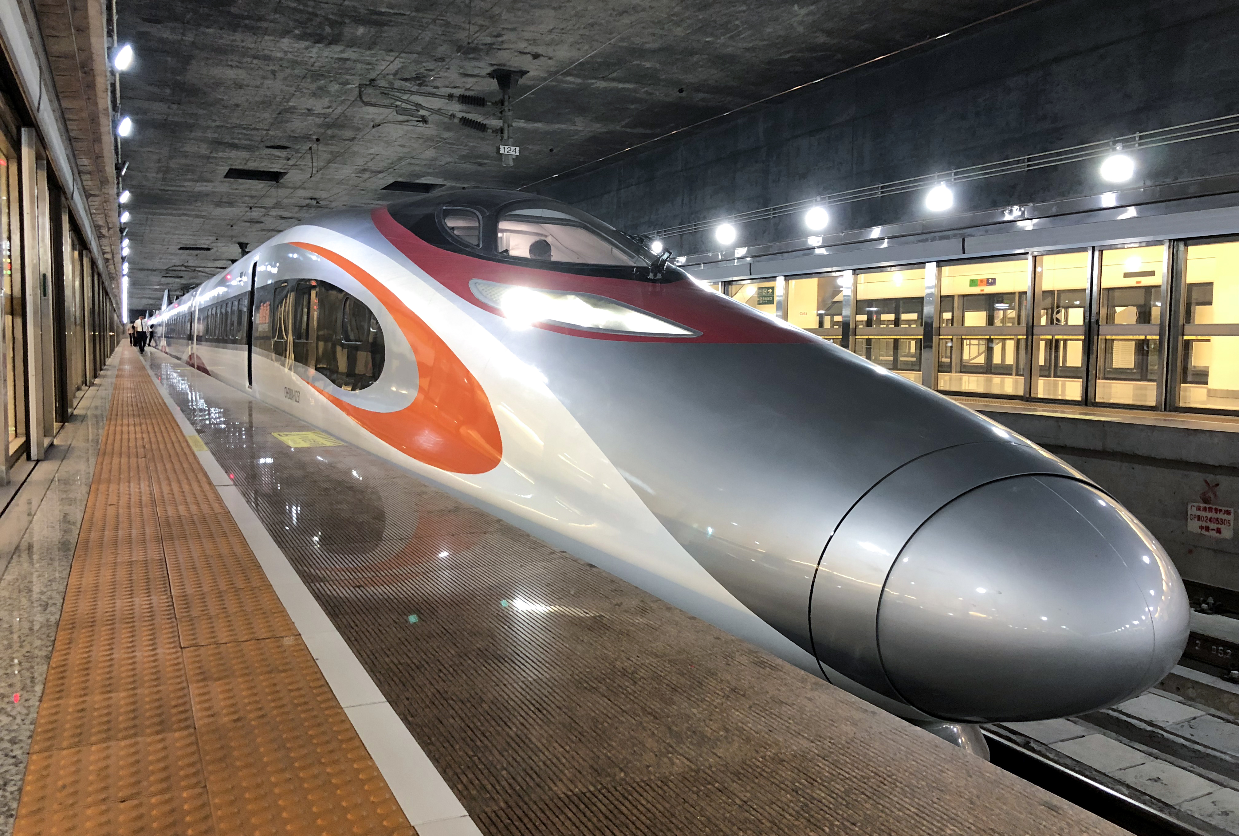 G5827 to Hong Kong West Kowloon. Futian Railway Station has an advantage for the possibility of train spotting at the platform, unlike HK West Kowloon.